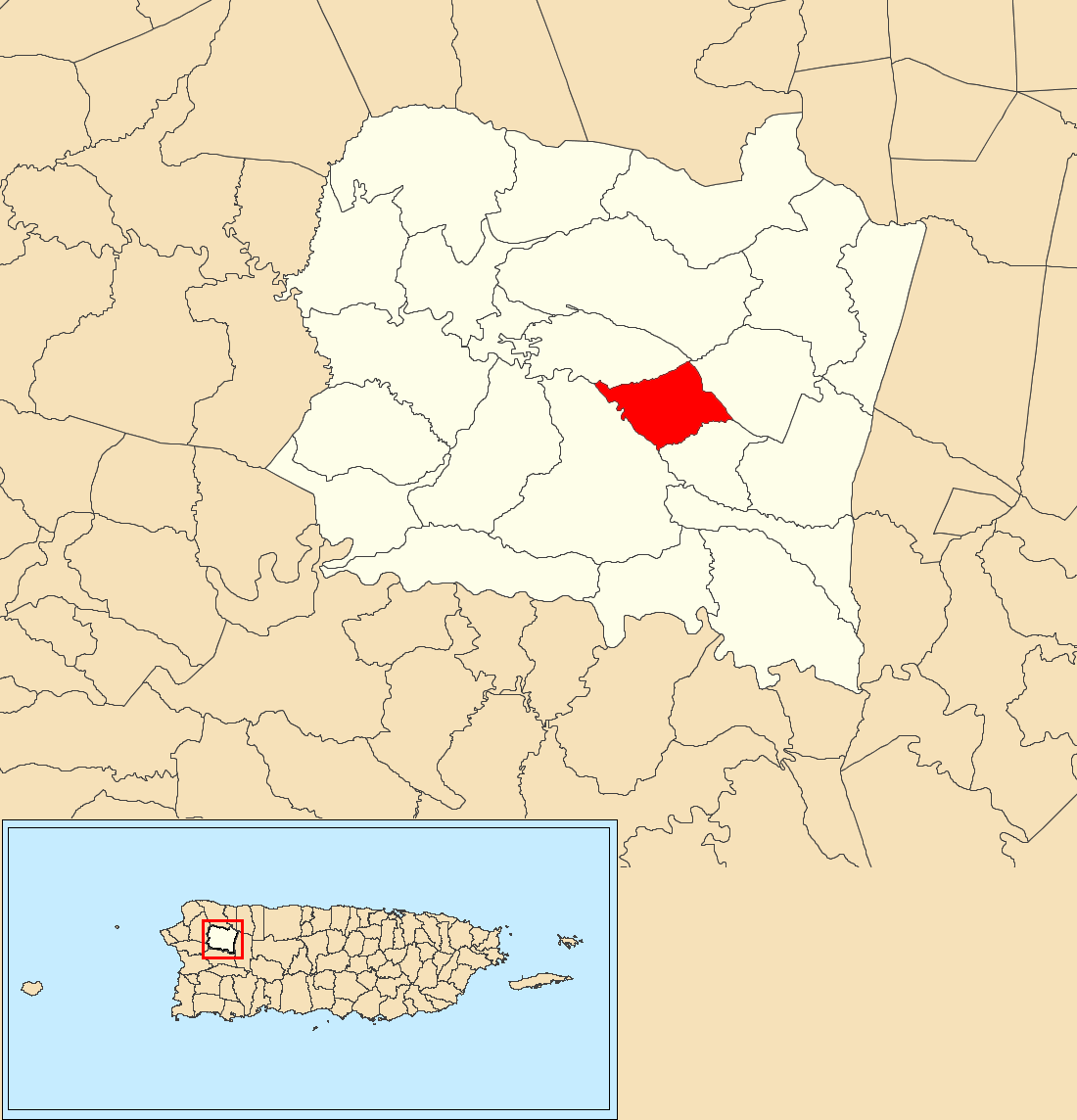 Cidral, San Sebastián, Puerto Rico locator map